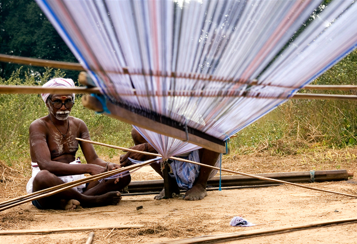 A weaver preparing the warp in a village near Kanchipuram, India.